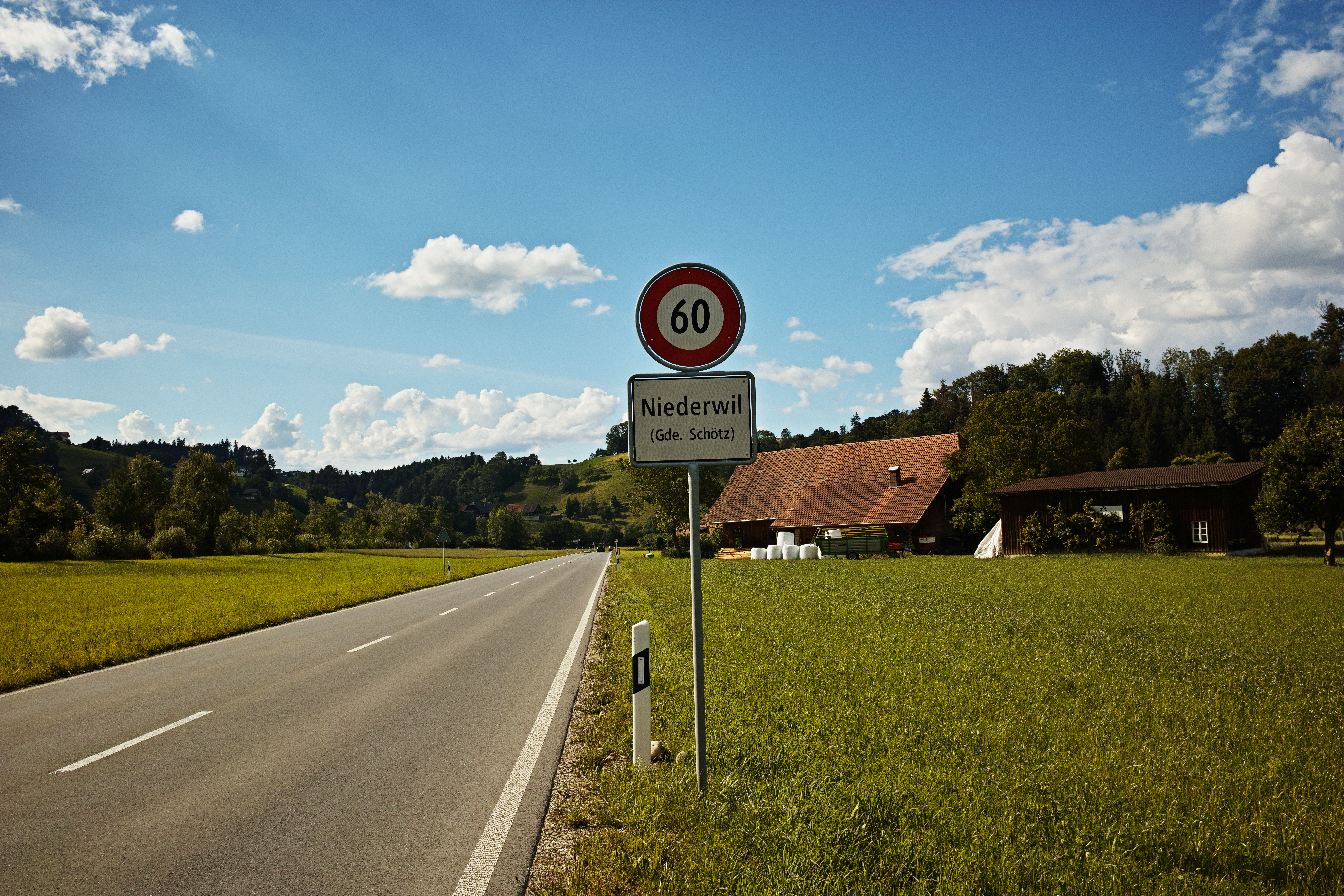 Town sign of Niederwil (part of the former municipality of Ohmstal) in the municipality of Schötz, canton of Lucerne, Switzerland. On the road from Gettnau.